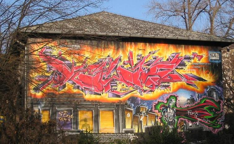 Graffiti by Kacao77 at Statthaus Böcklerpark in Berlin-Kreuzberg, Prinzenstraße, beside Landwehrkanal close to Urbanhafen